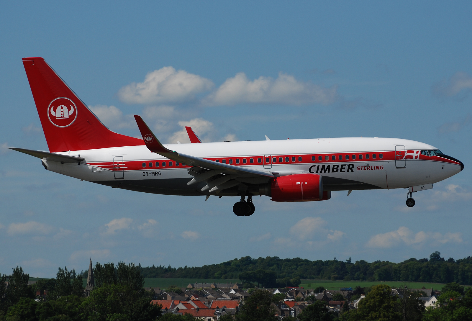 Cimber Sterling Boeing 737-7L9 OY-MRG at Edinburgh Airport